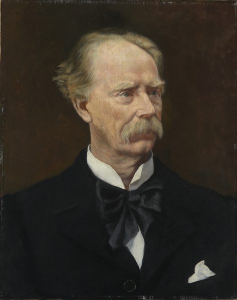 Lawyer, real estate developer and sports offical Henrik Olsen Biørn Homan (1824-1900), painting from 1903 (after a photo from before 1890) by Wilhelm Holter.